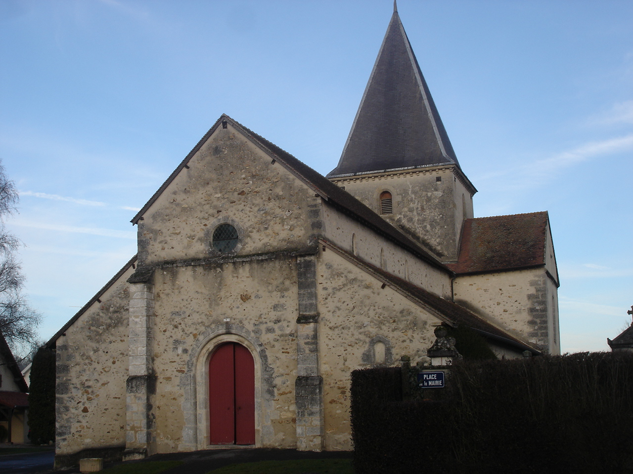 Saint Louvent church of Pocancy , Marne, France